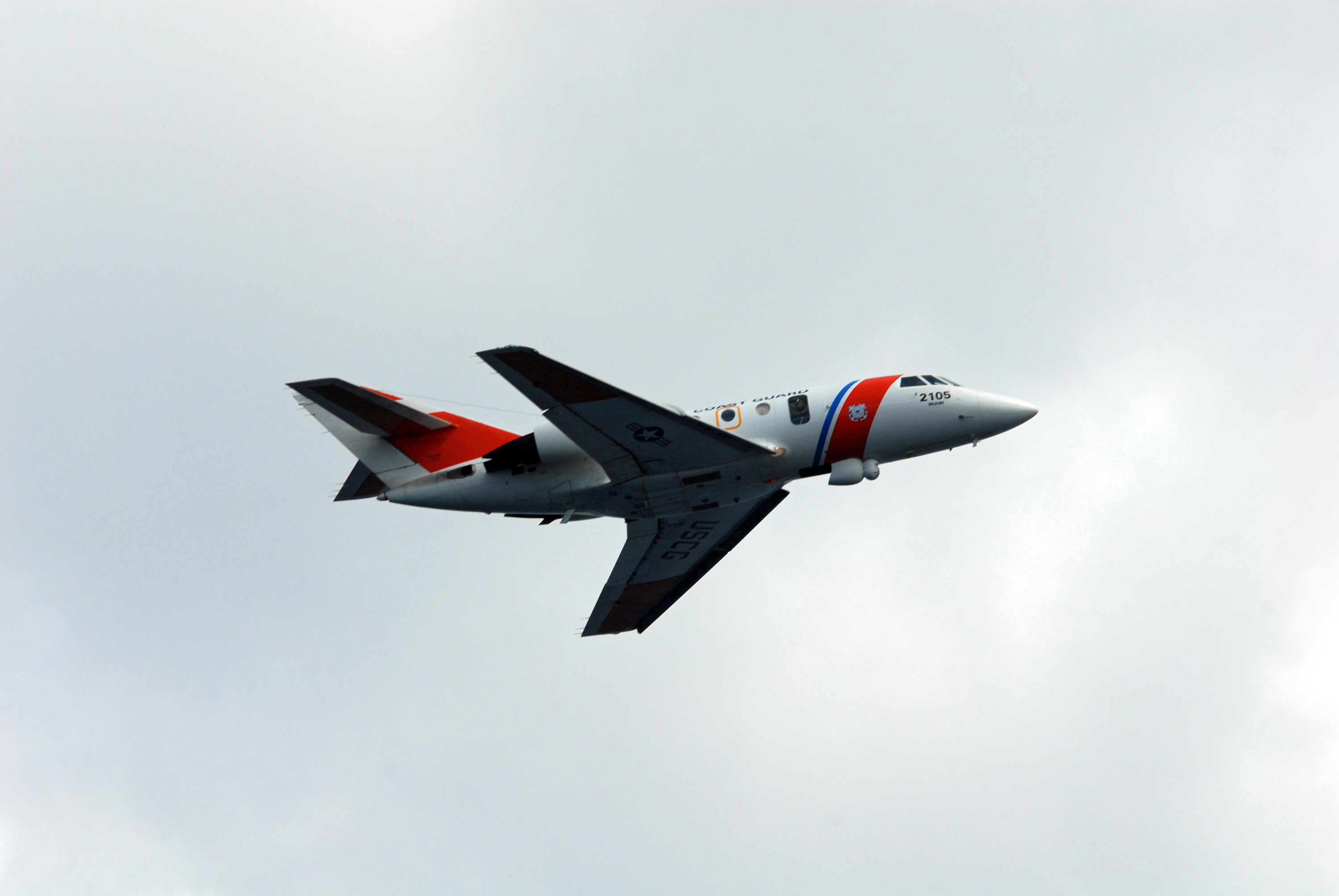 CAPE CANAVERAL, Fla. -- A U.S. Coast Guard HU-25 Falcon jet flies overhead during a rescue training exercise, known as Mode VIII, off Florida's central east coast. In support of, and with logistical support from, NASA, USSTRATCOM is hosting a major exercise involving Department of Defense, Department of Homeland Security, search and rescue (SAR) forces, including the 45th Space Wing at Patrick Air Force Base, which support space shuttle astronaut bailout contingency operations, known as Mode VIII. This exercise tests SAR capabilities to locate, recover and provide medical treatment for astronauts following a space shuttle launch phase open-ocean bailout. Participants include members of the U.S. Navy, U.S. Coast Guard, U.S. Air Force, and NASA's Kennedy Space Center and Johnson Space Center.